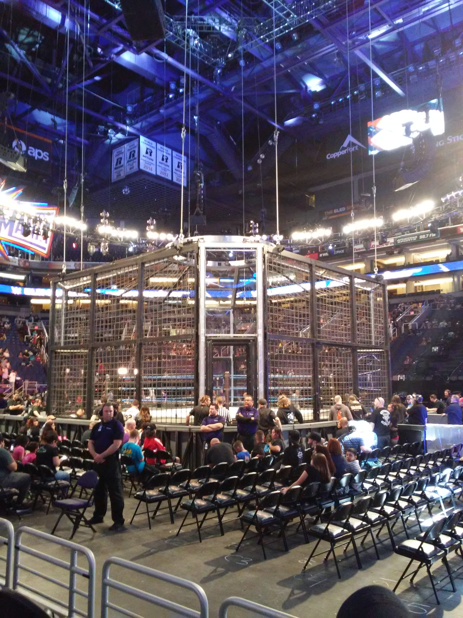 The 2017 alteration of the Elimination Chamber structure.